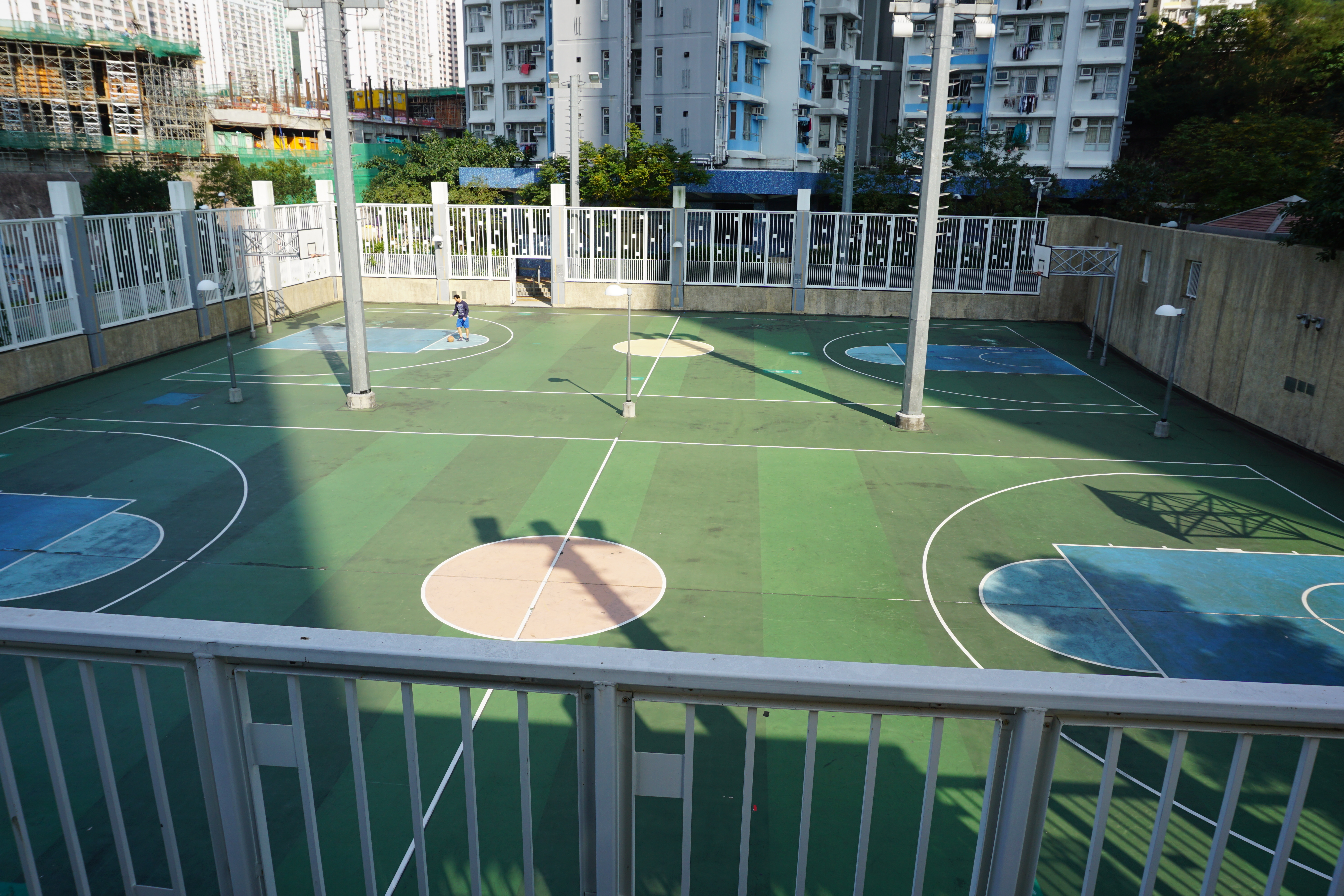 Choi Tak Estate in Kowloon Bay, Hong Kong.